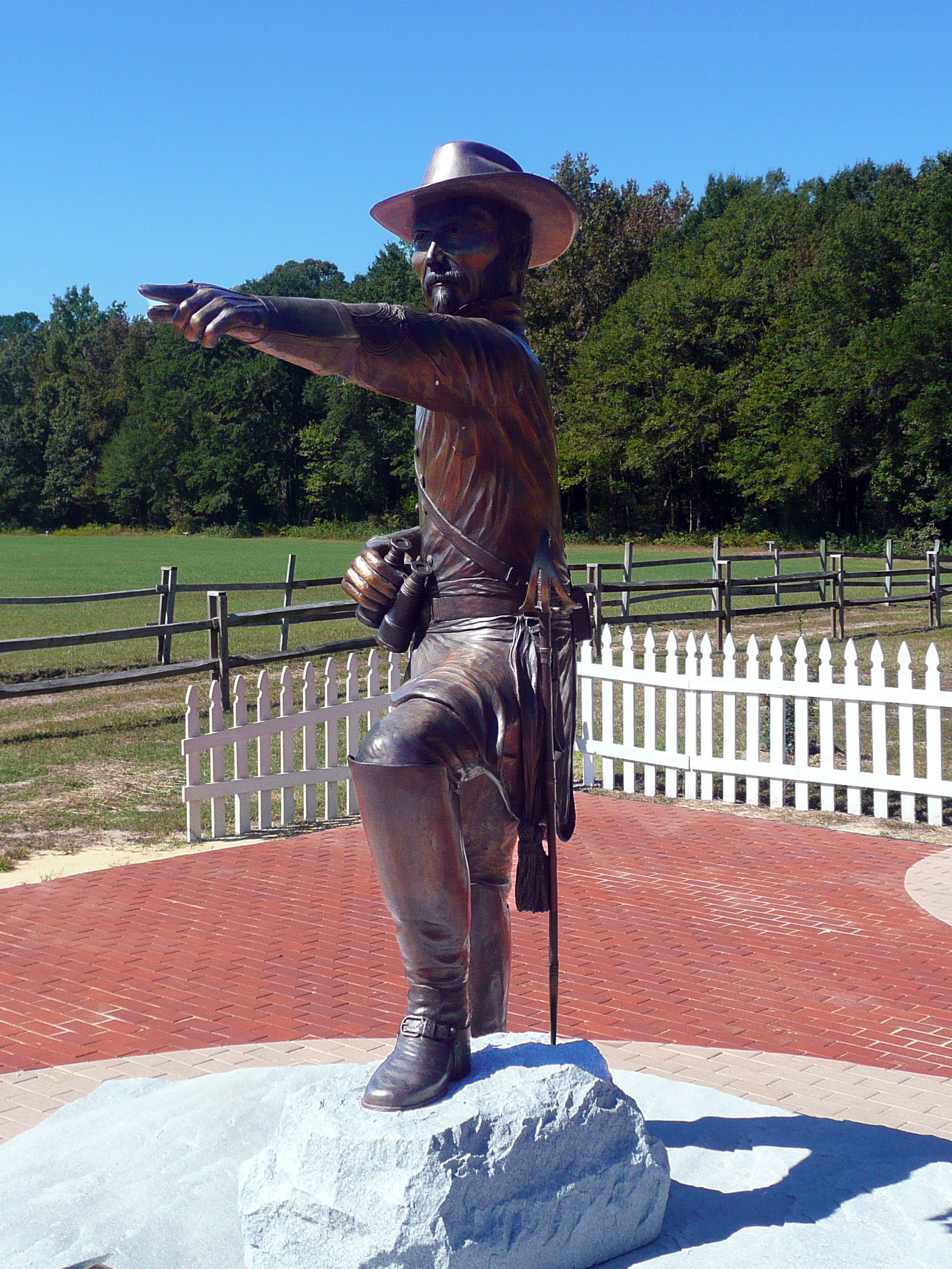 Photograph of the monument to Confederate general Joseph E. Johnston at Bentonville, North Carolina.